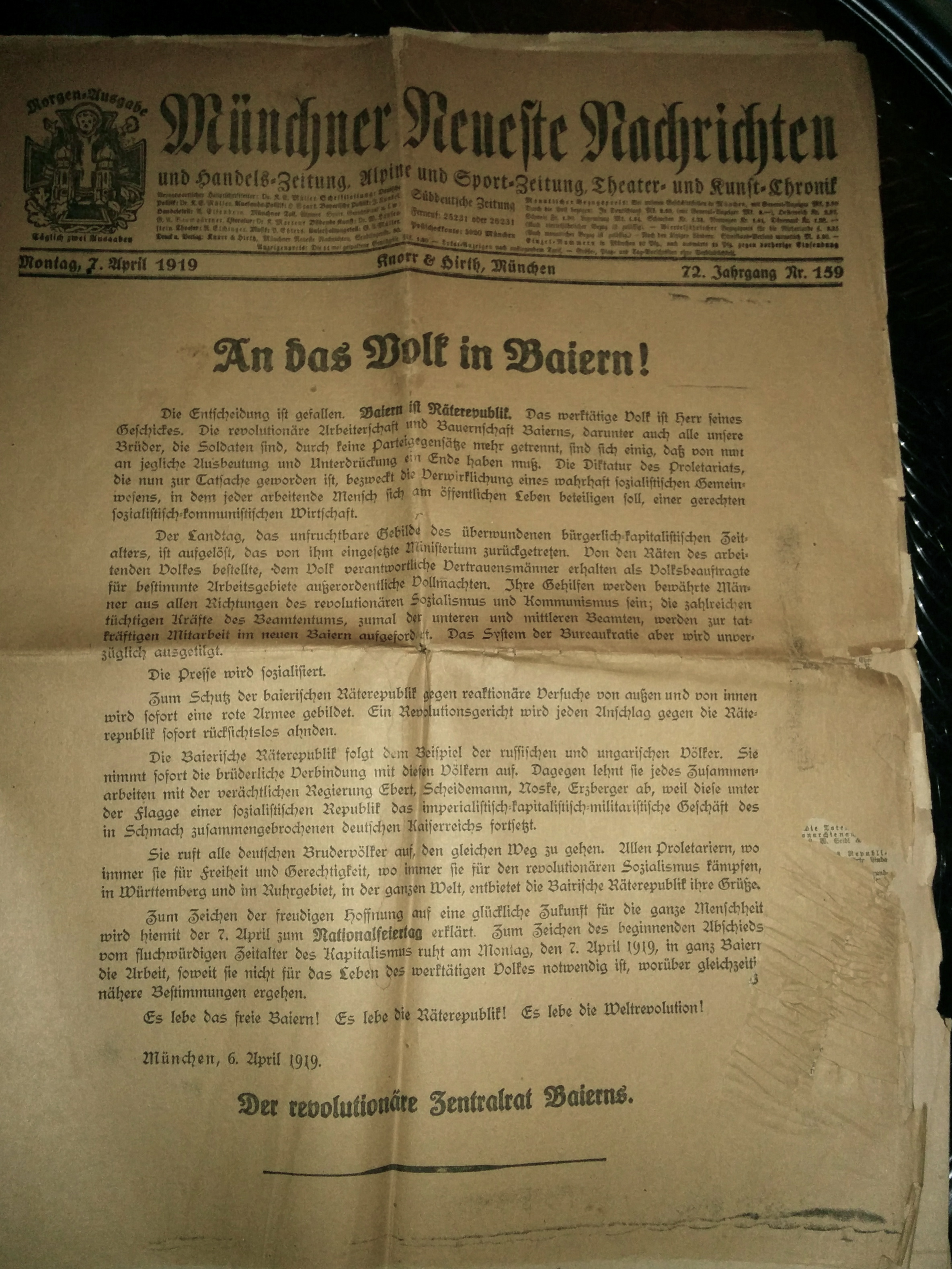 Photograph of the declaration of the MunichCouncilsRepublic at the "Münchner Neueste Nachrichten" daily newspaper, dated april the 7th 1919. Many thanks to the owner LotharLange from Dresden, Germany.